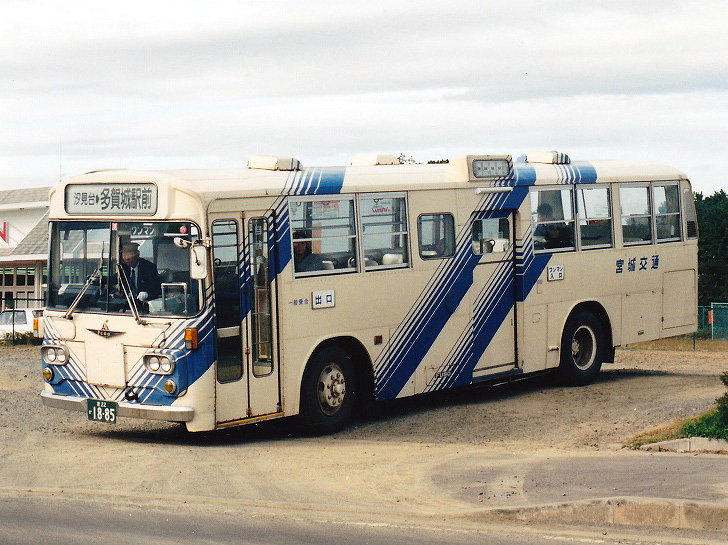 Miyagi Kotsu Mitsubishi Fuso K-MP118K for Shiomidai-danchi line